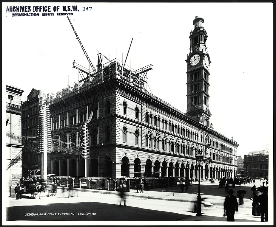 General Post Office - extensions, showing Martin Place, Sydney Dated: 04/04/1898 Digital ID: 4481_a026_000314 Rights: We'd love to hear from you if you use our photos. Many other photos in our collection are available to view and browse on our website using Photo Investigator.